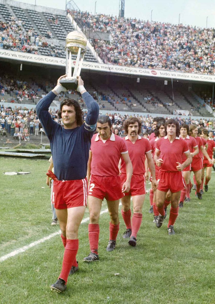 Players of C.A. Independiente (with goalkeeper and captain Miguel A. Santoro raising the Intercontinental Cup won vs. Juventus) entering to the pitch.